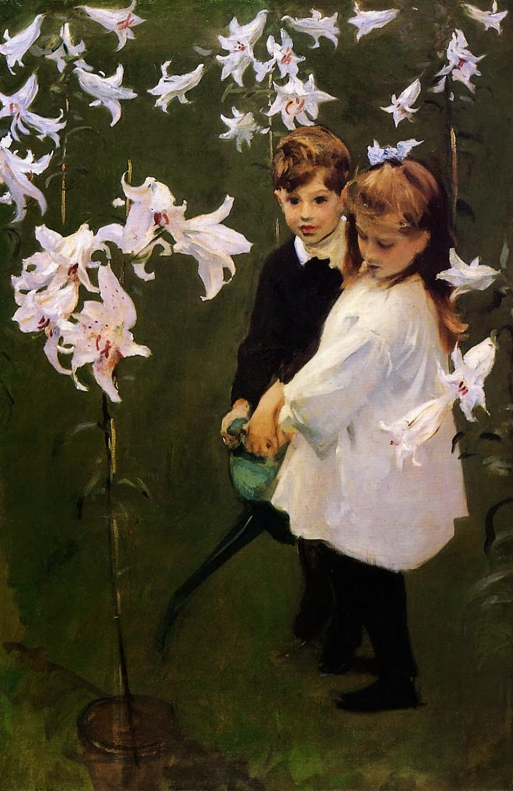 Garden study of the Vickers children